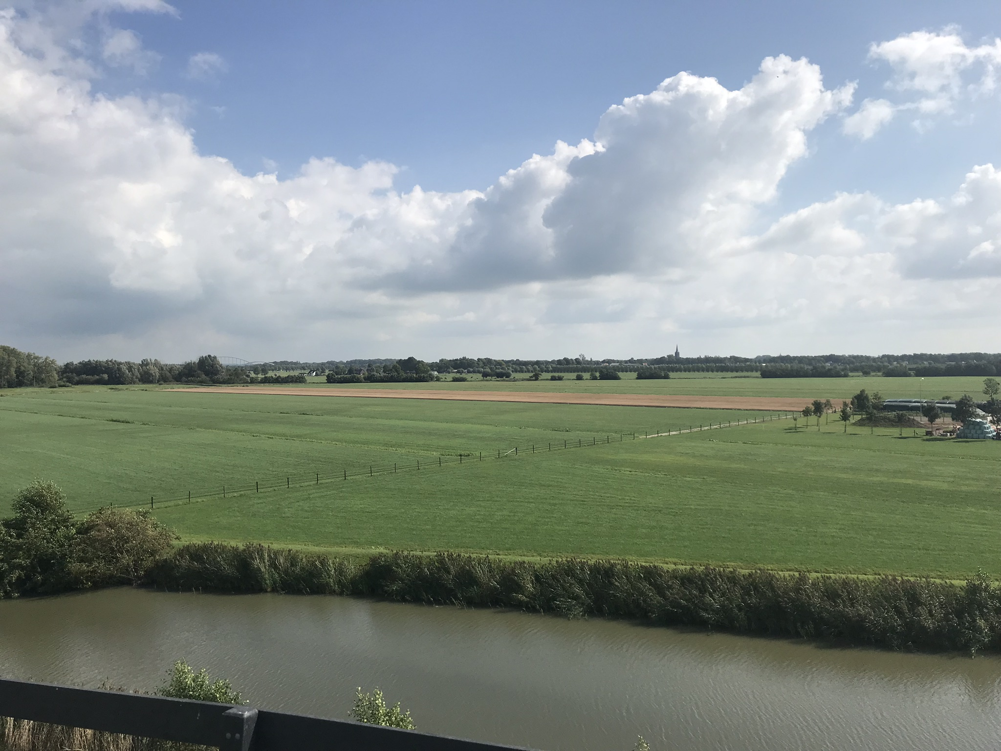 Polderlandscape Schalkwijk